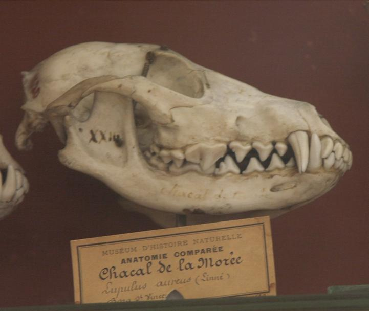 Skull of a Peloponnese jackal from the Muséum national d'histoire naturelle